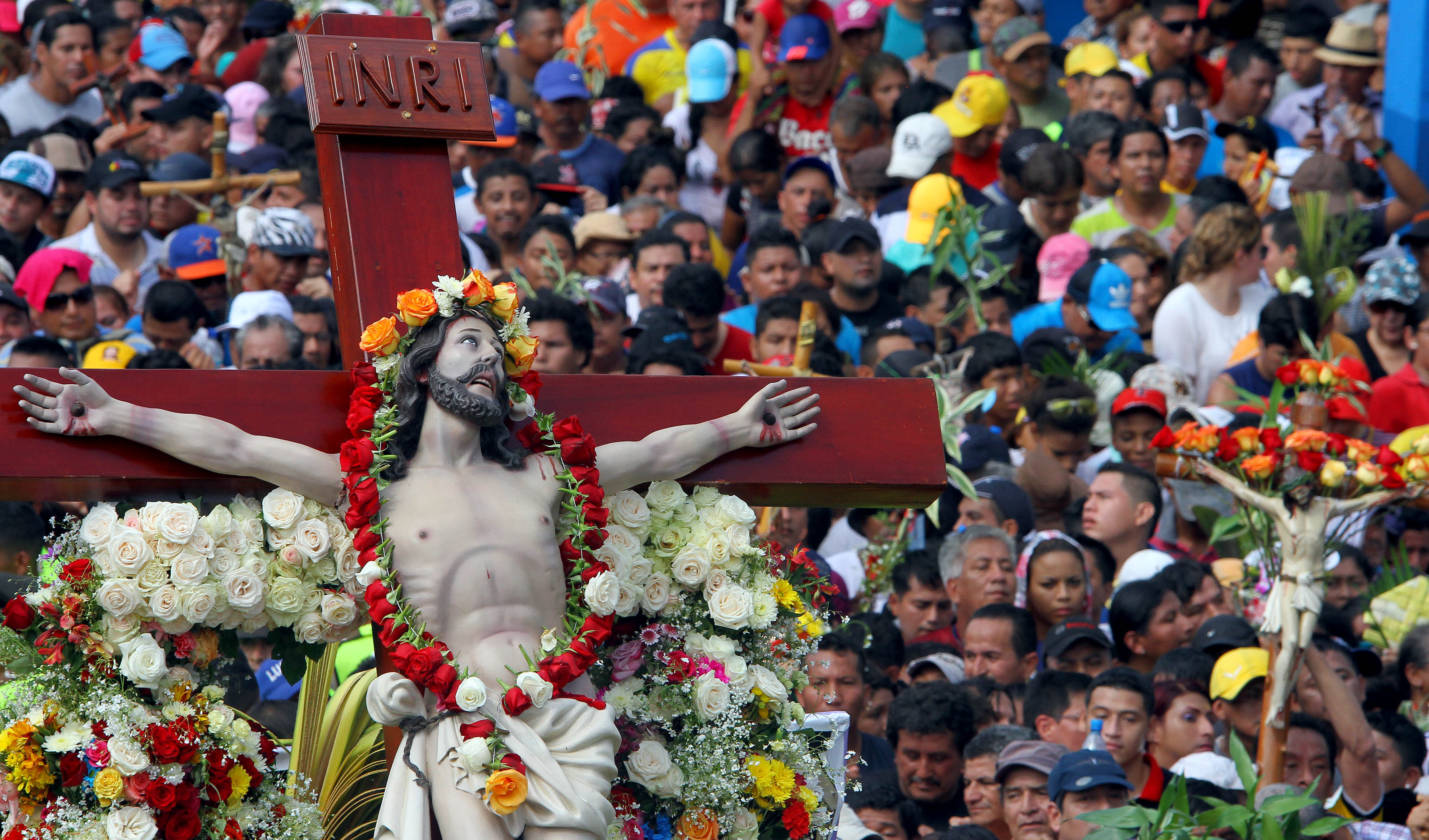 Guayaquil, viernes 03 de abril del 2015 (ANDES).-Miles de feligreses acompañaron a la imagen de Cristo en una procesión que recorre desde la iglesia del Cristo del Consuelo hasta llegar a la iglesia Espiritu Santo en el sureste de Guayaquil.Foto:César Muñoz/ANDES